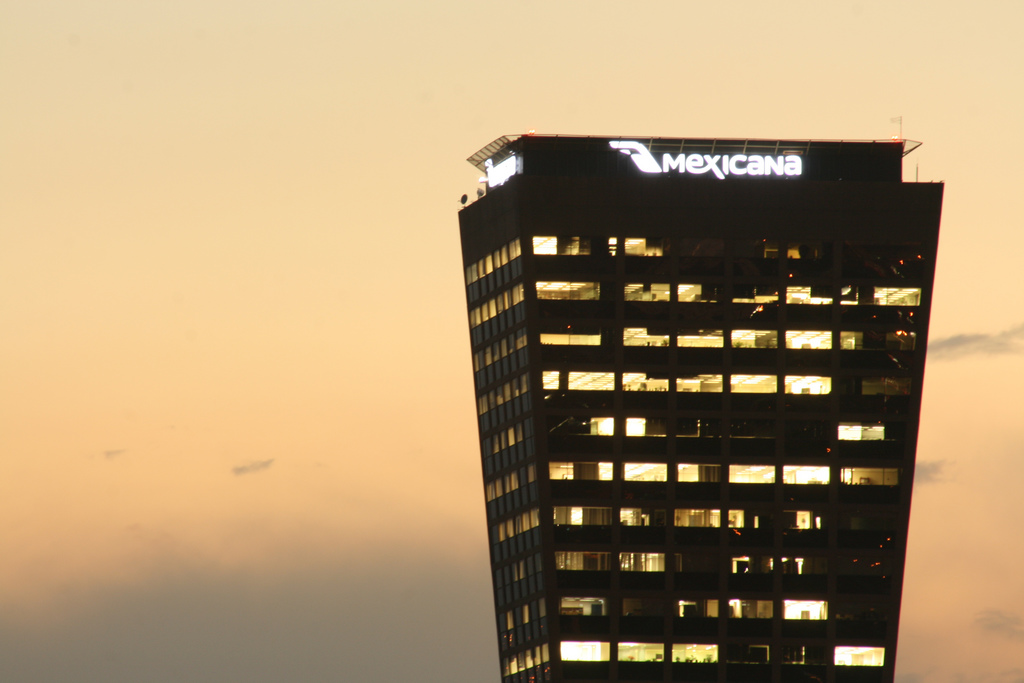 Mexicana de Aviación Tower corporate offices